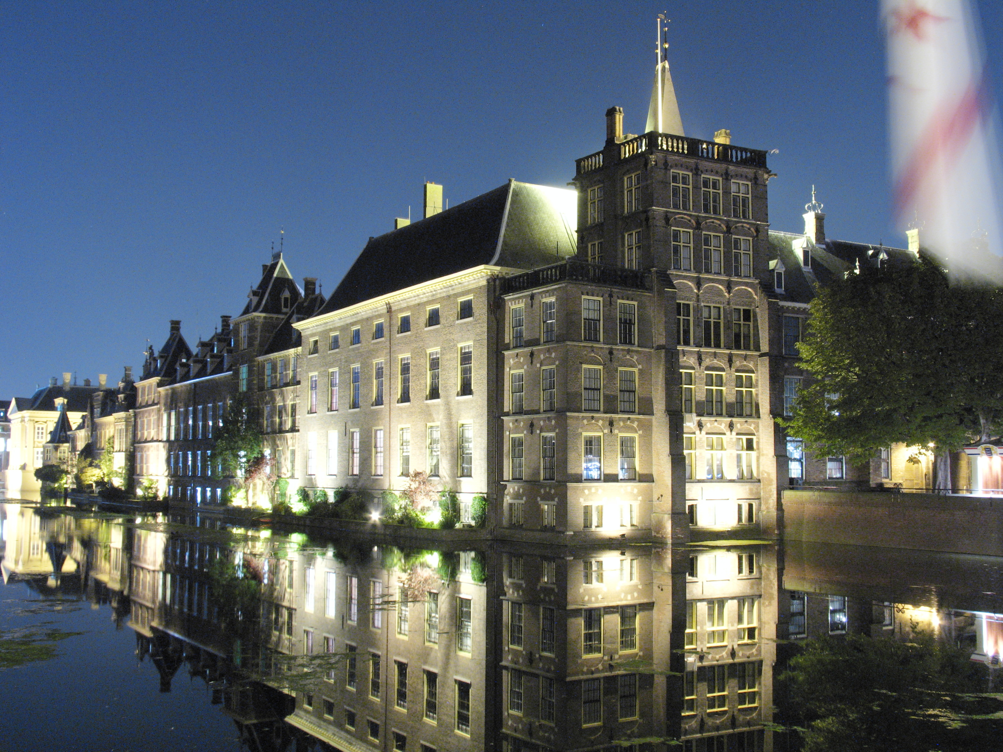 Binnenhof at night.JPG